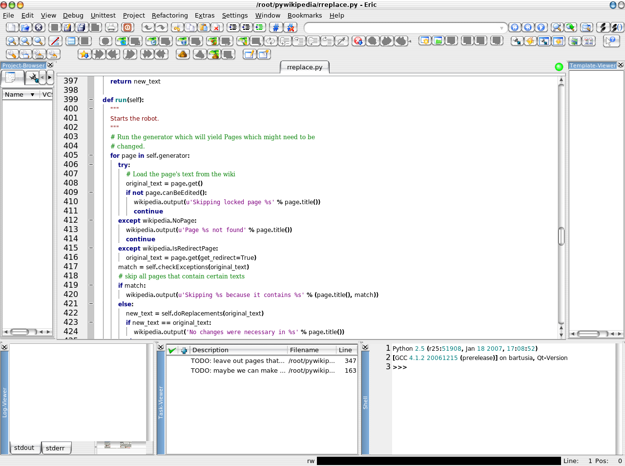 Eric3 Python IDE under Arch Linux and Xfce 4.4